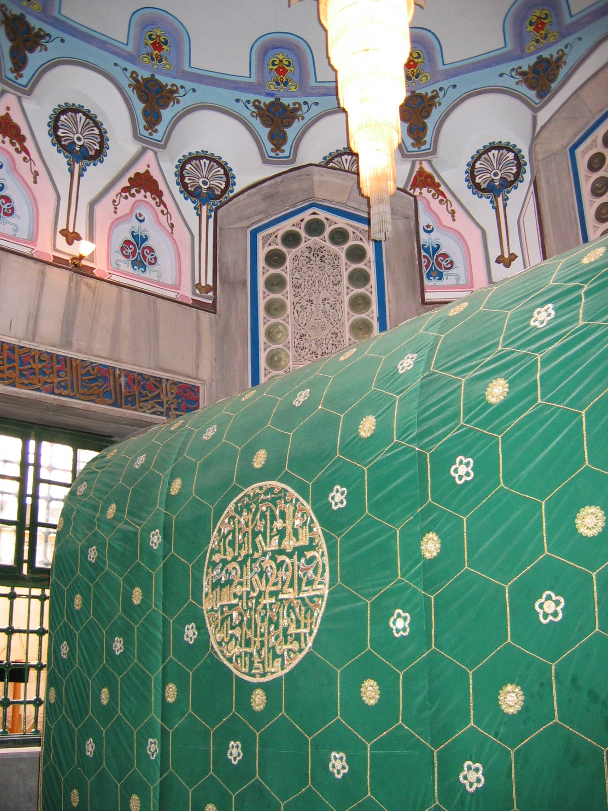 "Tomb of Abraham," cenotaph above the cave traditionally considered to be the burial place of Abraham and Sarah in the Cave of the Patriarchs. Photo by Eric Stoltz, March 2006.